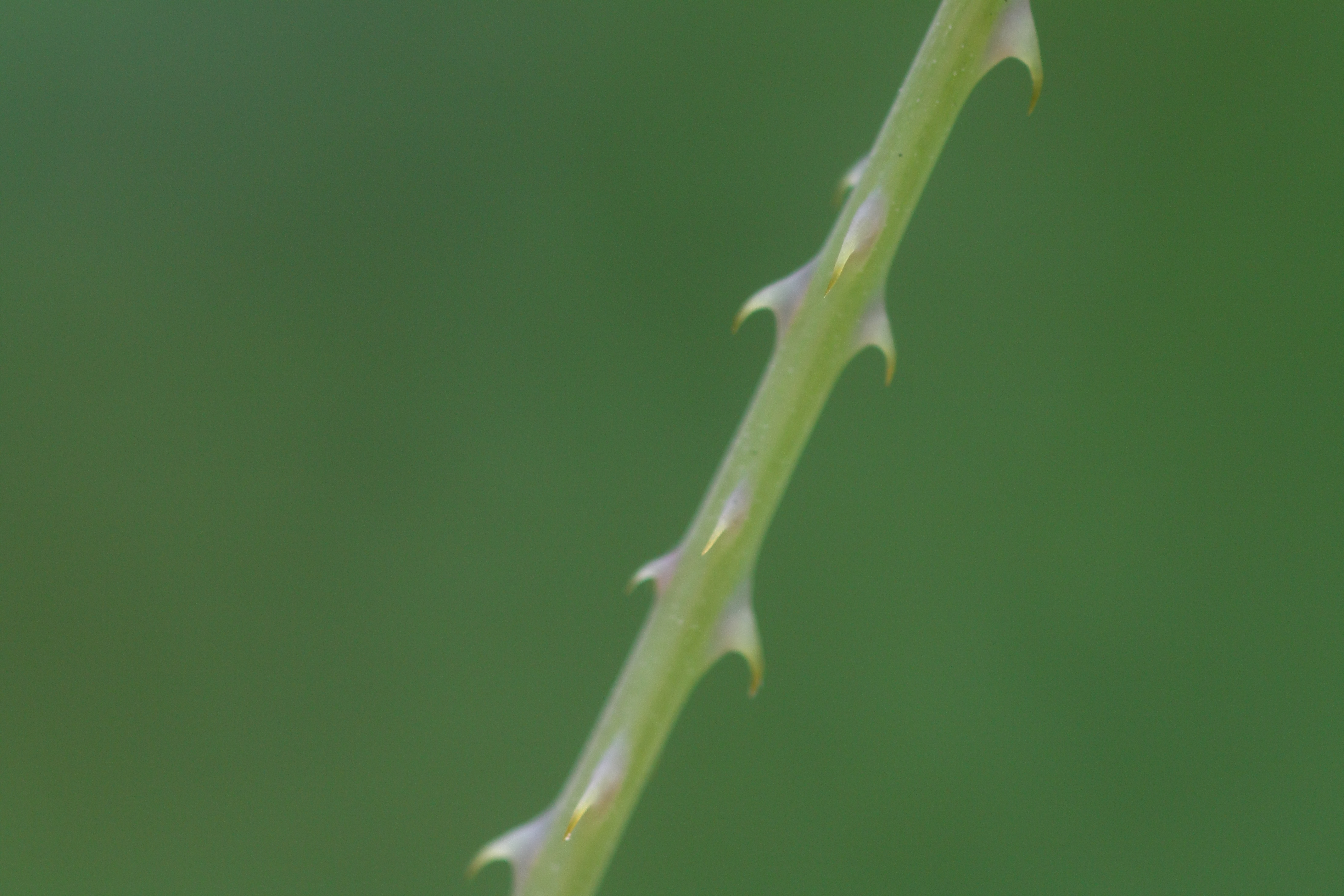 Persicaria perfoliata